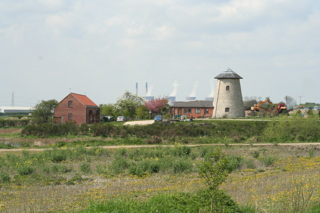 Windmill, house conversion. The windmill conversion is on the A645 Weeland Road between Eggborough and Knottingley. Ferry Bridge Power Station can be seen in the distance.